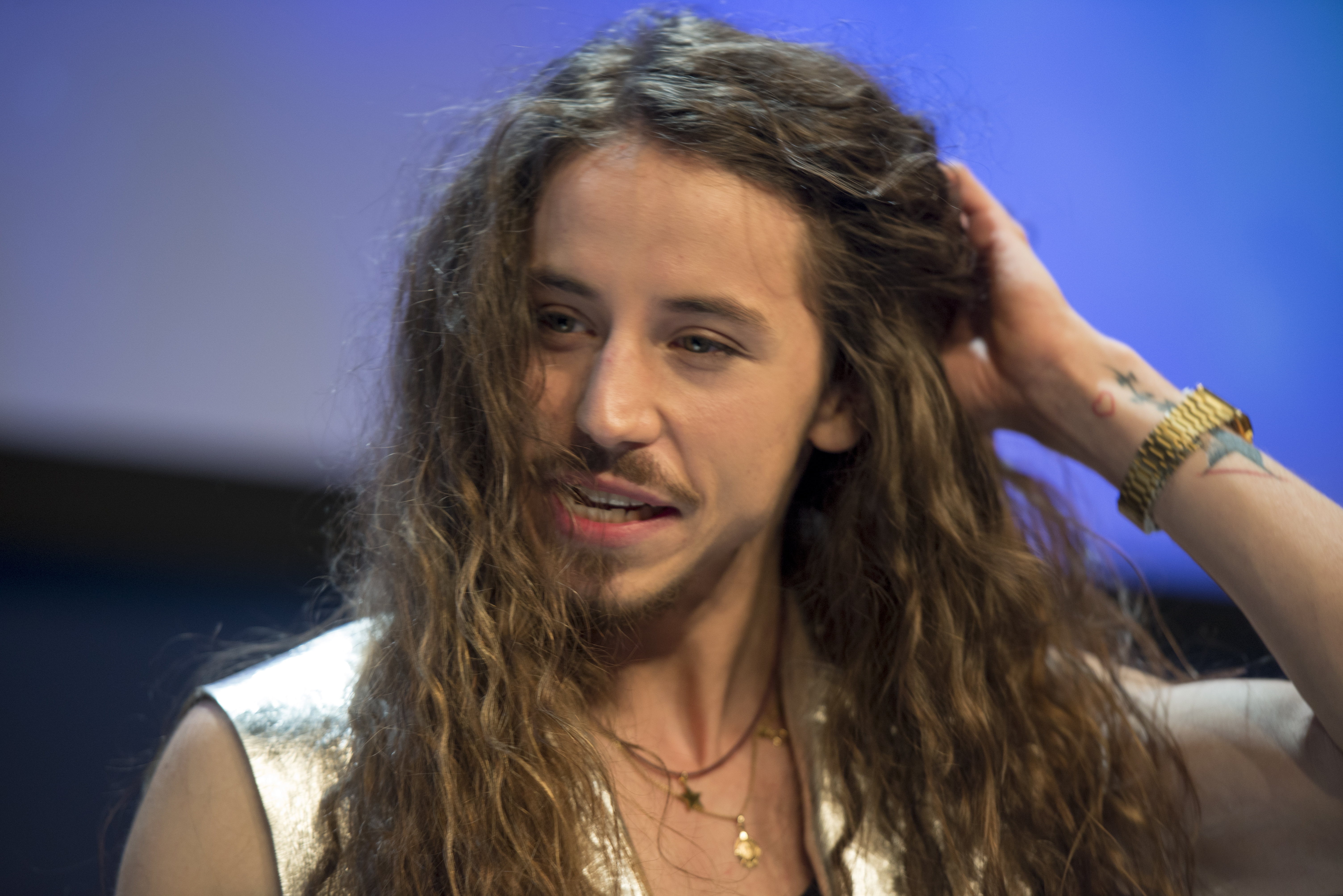 Michał Szpak at a Meet & Greet during the Eurovision Song Contest 2016 in Stockholm. (Help translate this text)